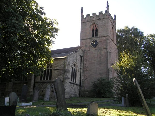 St Giles Church, Killamarsh. Right on the line between SK4680 and SK4681, St Giles church is hidden from view as far as most of Killamarsh is concerned, but on a still night, the chimes of the clock can be heard. Oh, the clock was wrong as well.